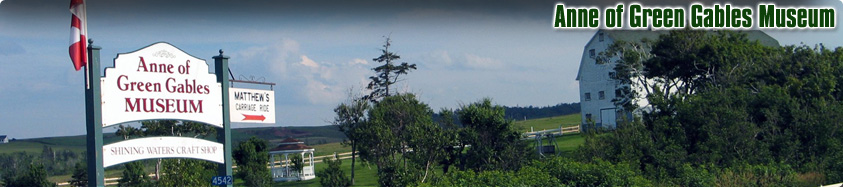 Entrance to Anne of Green Gables Museum